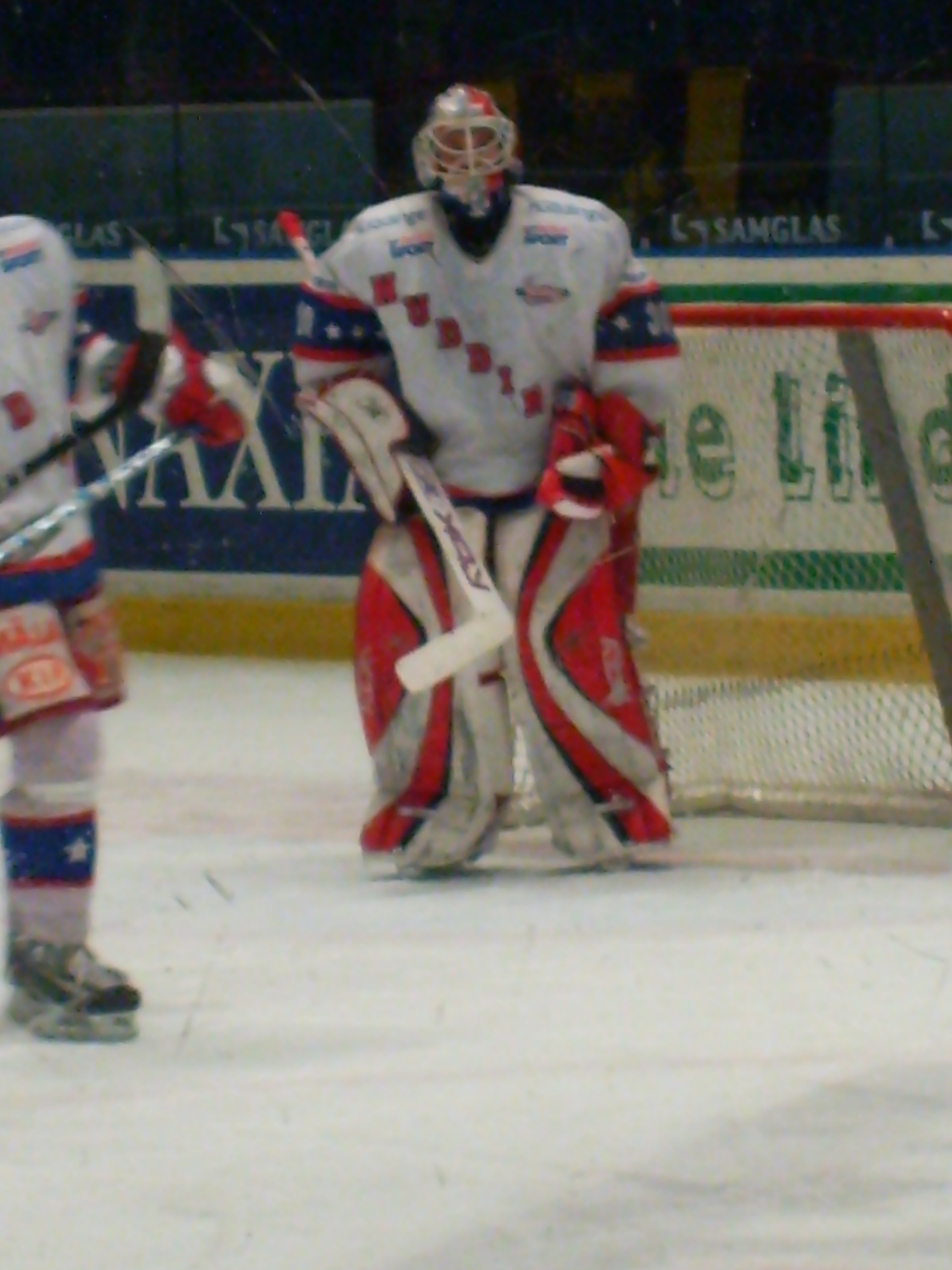 A goaltender from Huddinge IK, Sweden.